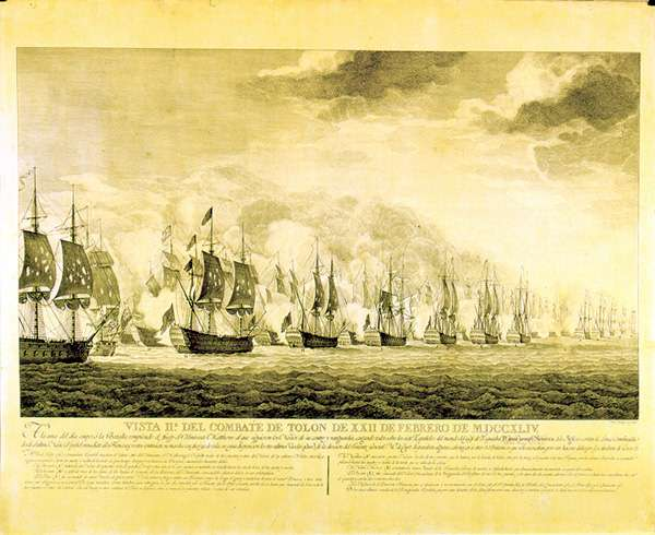 Engraving of the Battle (1797). Naval Museum of Madrid